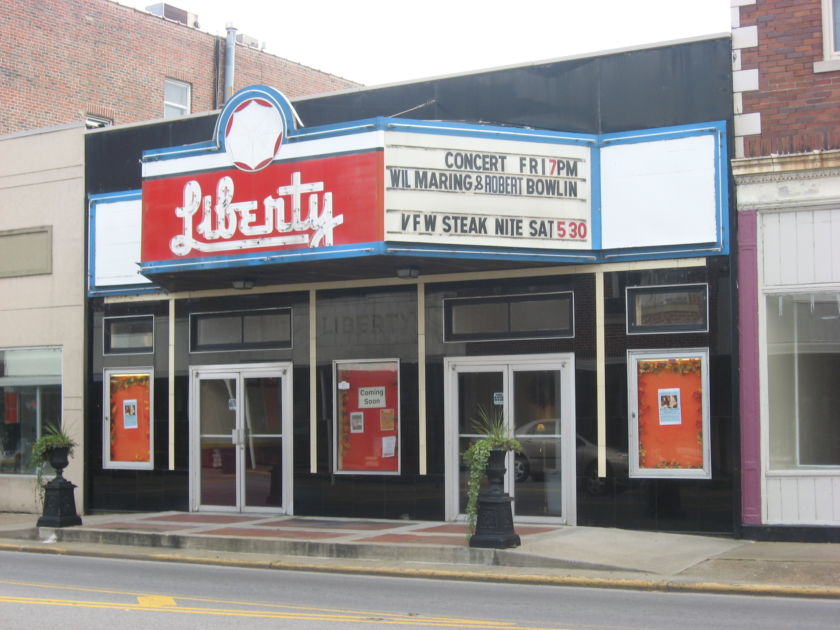 Front of the Liberty Theater, located at 1333 Walnut Street (Illinois Route 149) in Murphysboro, Illinois, United States. Built in 1913, it is listed on the National Register of Historic Places.